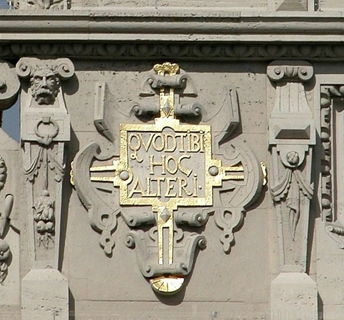 Brunswick, Germany: Cloth Hall, detail of the east façade.